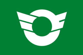 Flag of Higashishirakawa Gifu